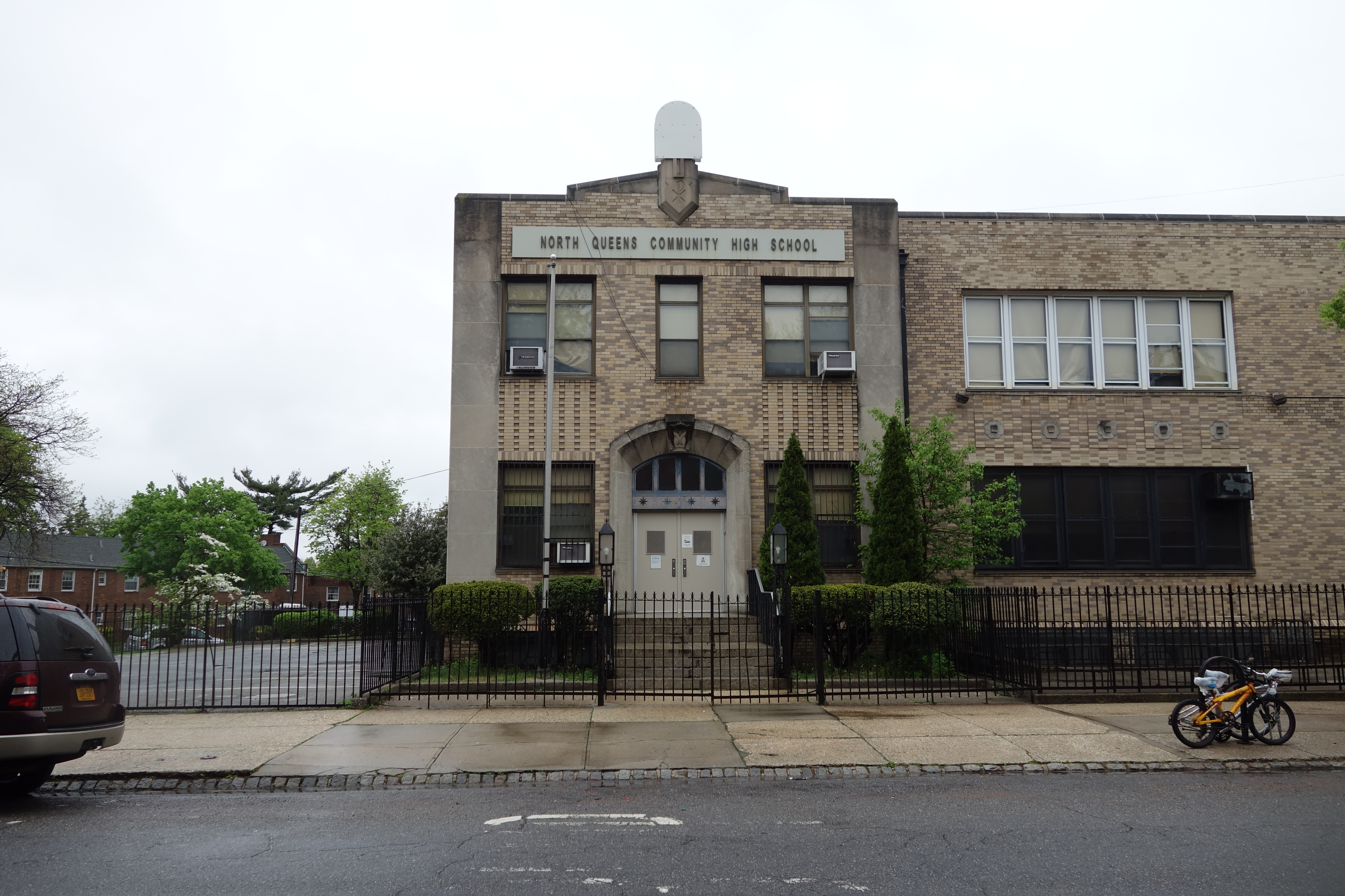 The main building of the former Queen of Peace School next to the Queen of Peace Church, on 77th Road between Vleigh Place and Main Street in Kew Gardens Hills, Queens. The school was closed in June 2006 due to low enrollment. It was occupied first by the Ida B. Wells School, and then by the North Queens Community High School which is a transfer high school. Also note the cross on top of the school has been covered up.